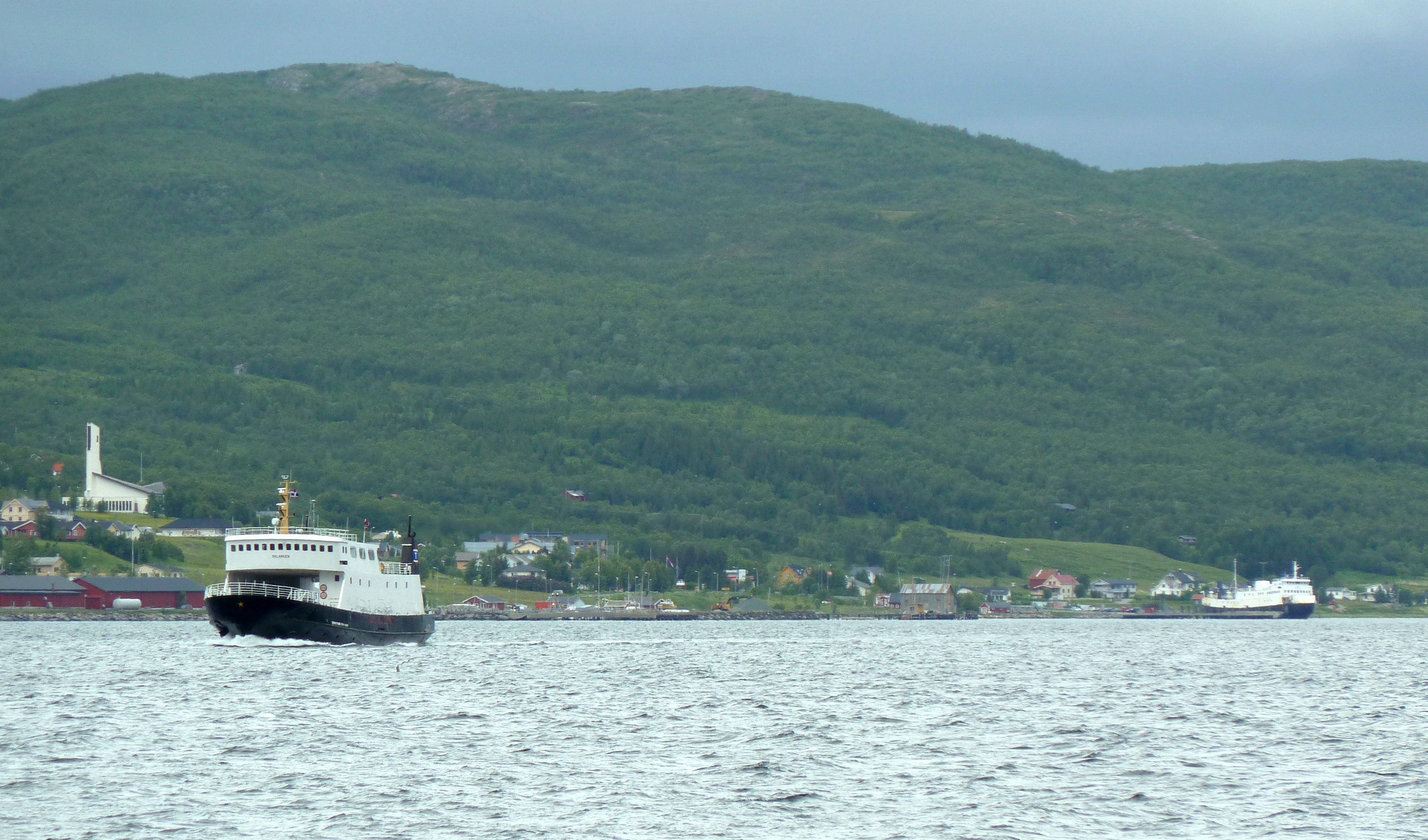 MF Salangen crossing Langsundet heading to Stakkvik at Reinøya. In background, MF Bognes. Both ships owned by Torghatten Nord company (2012).